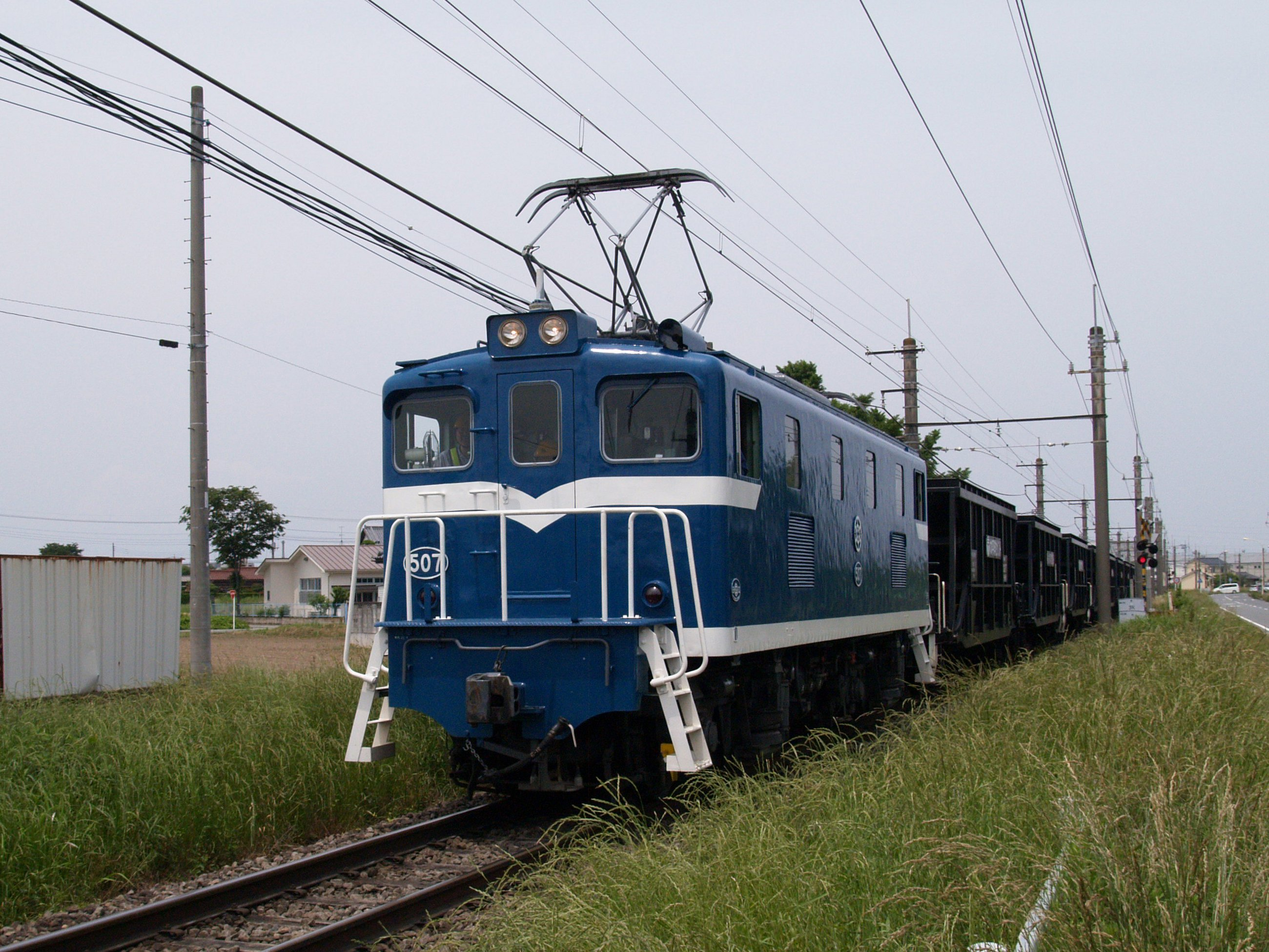 Chichibu Railway Class DeKi 500 electric locomotive DeKi 507 on a Chichibu Railway Mikajiri Line limestone freight working